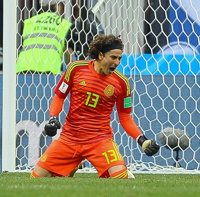 Francisco Guillermo Ochoa